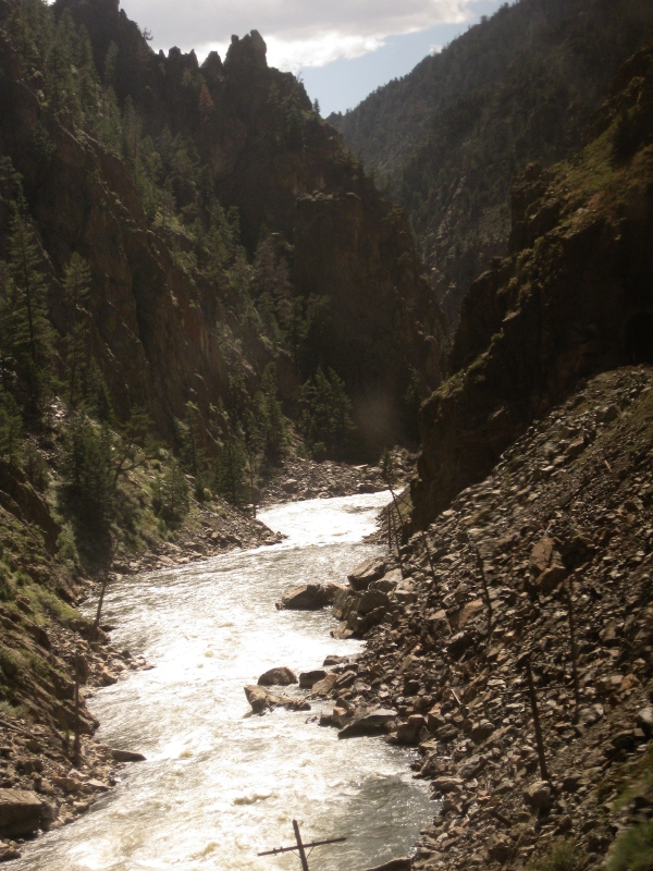 Colorado River near Colorado Springs, Colorado. The photo taken from a train.